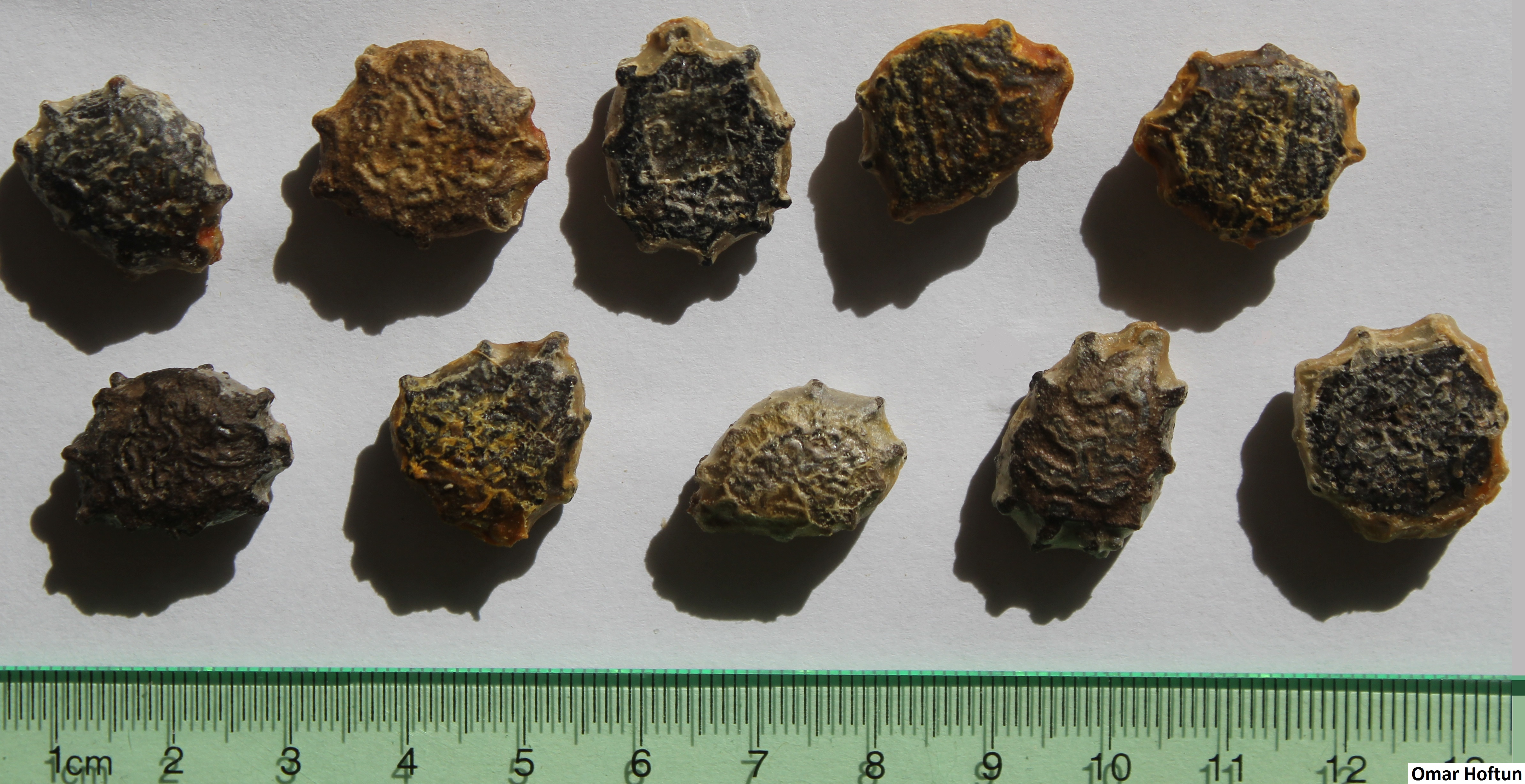 Momordica cochinchinensis (gac fruit) seeds.